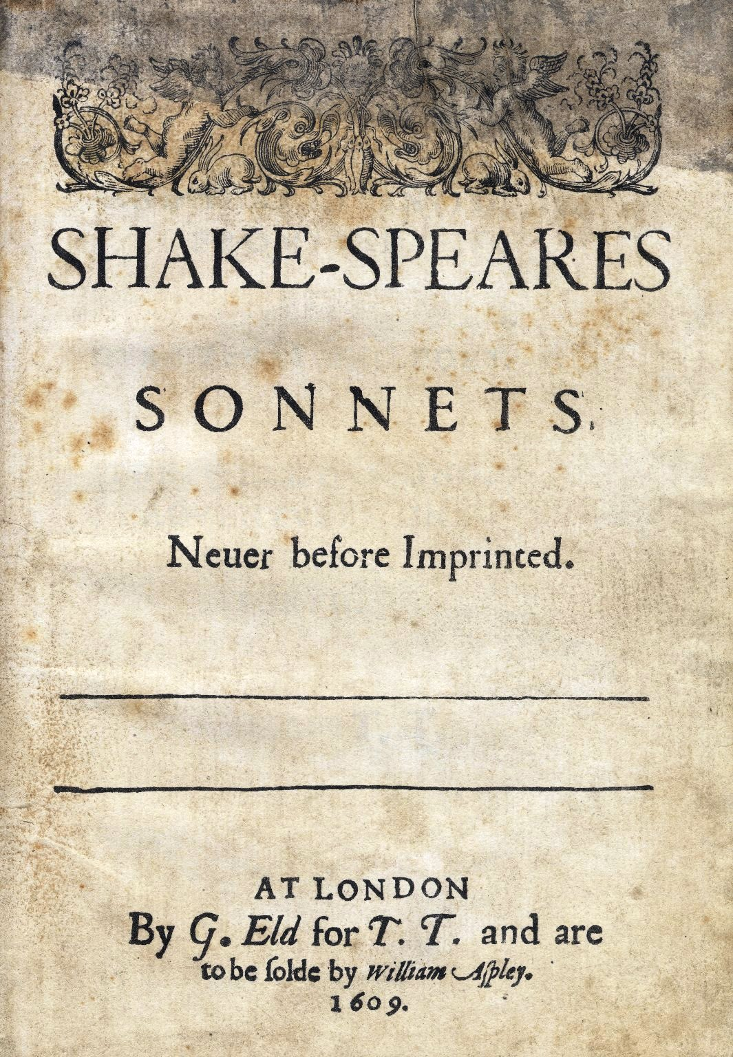 Title page of Shakespeare's Sonnets (1609)